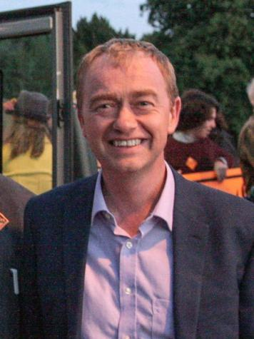 Tim Farron at a Liberal Democrat event.